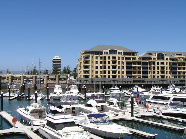 Marina in North Glenelg, looking west.